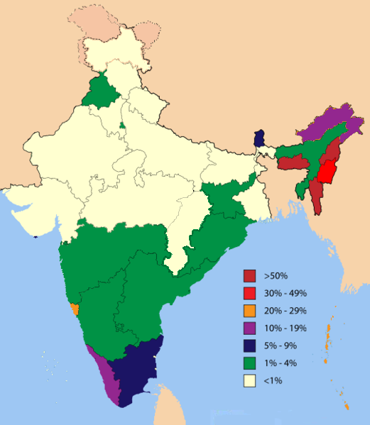 Distribution of Christians in Indian states